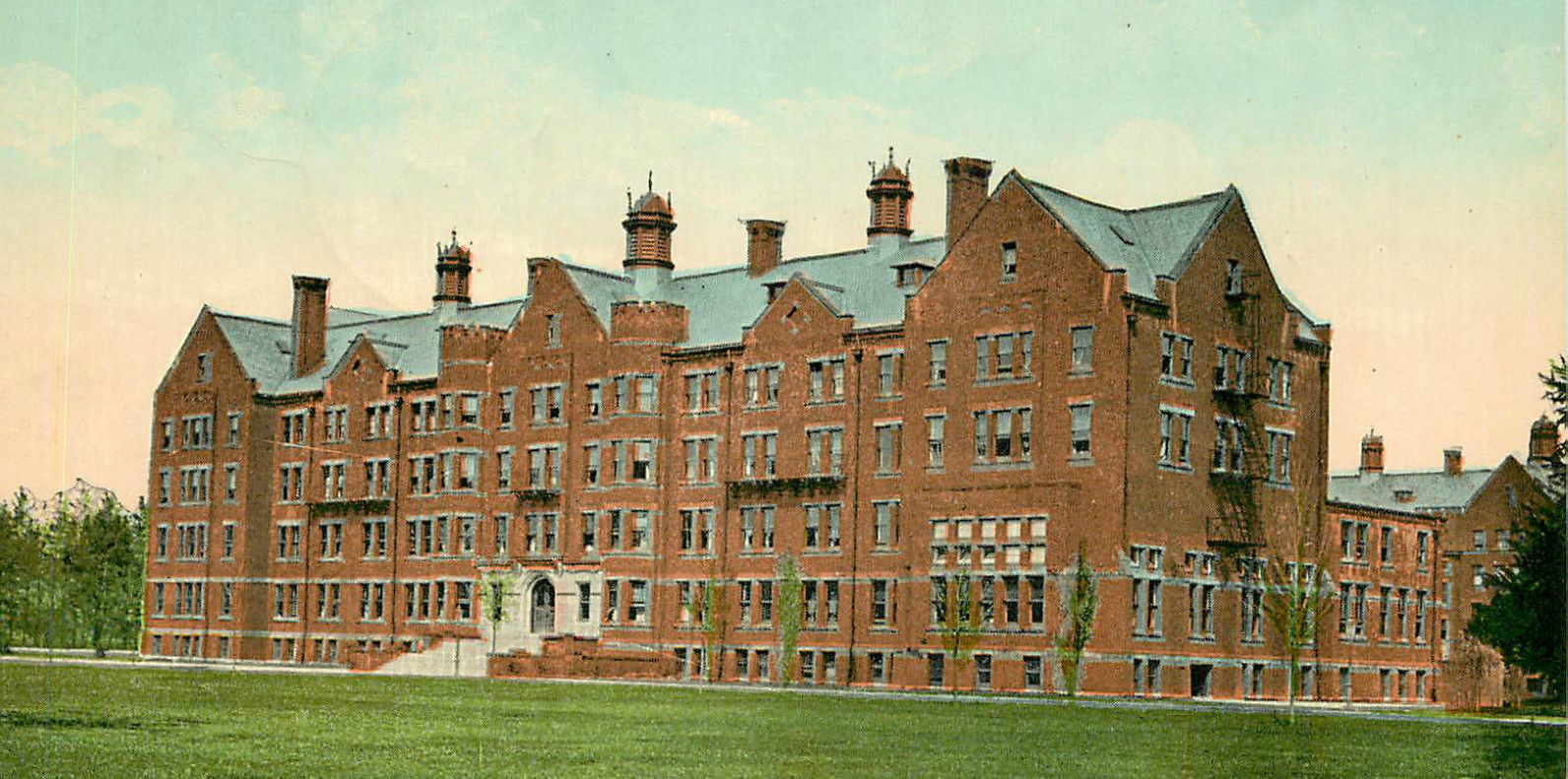 Vassar College's Davison House circa 1911.